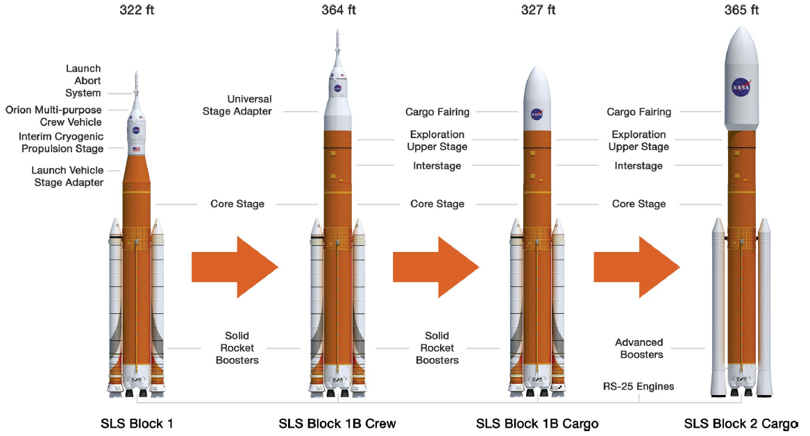 Picture extract from the SLS FactSheet released by NASA et MSFC in october 2015.